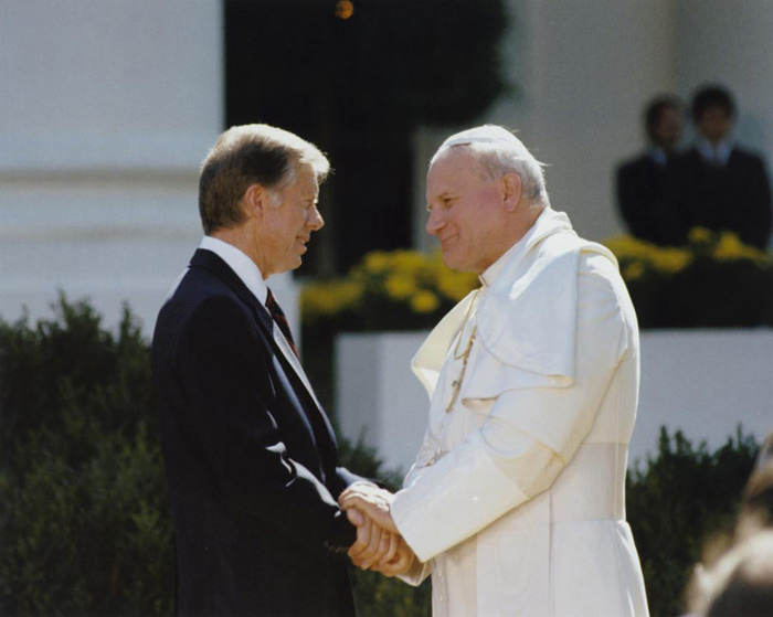 President Jimmy Carter with Pope John Paul II, photograph by Bill Fitz-Patrick, October 6, 1979. Pope John Paul II was the first pope to ever visit the White House. Courtesy National Archives, Jimmy Carter Presidential Library and Museum, Atlanta, Georgia.